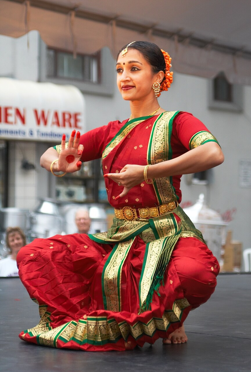 A Bharatanatyam dancer at the Festival of South Asia in Toronto, Ontario, Canada